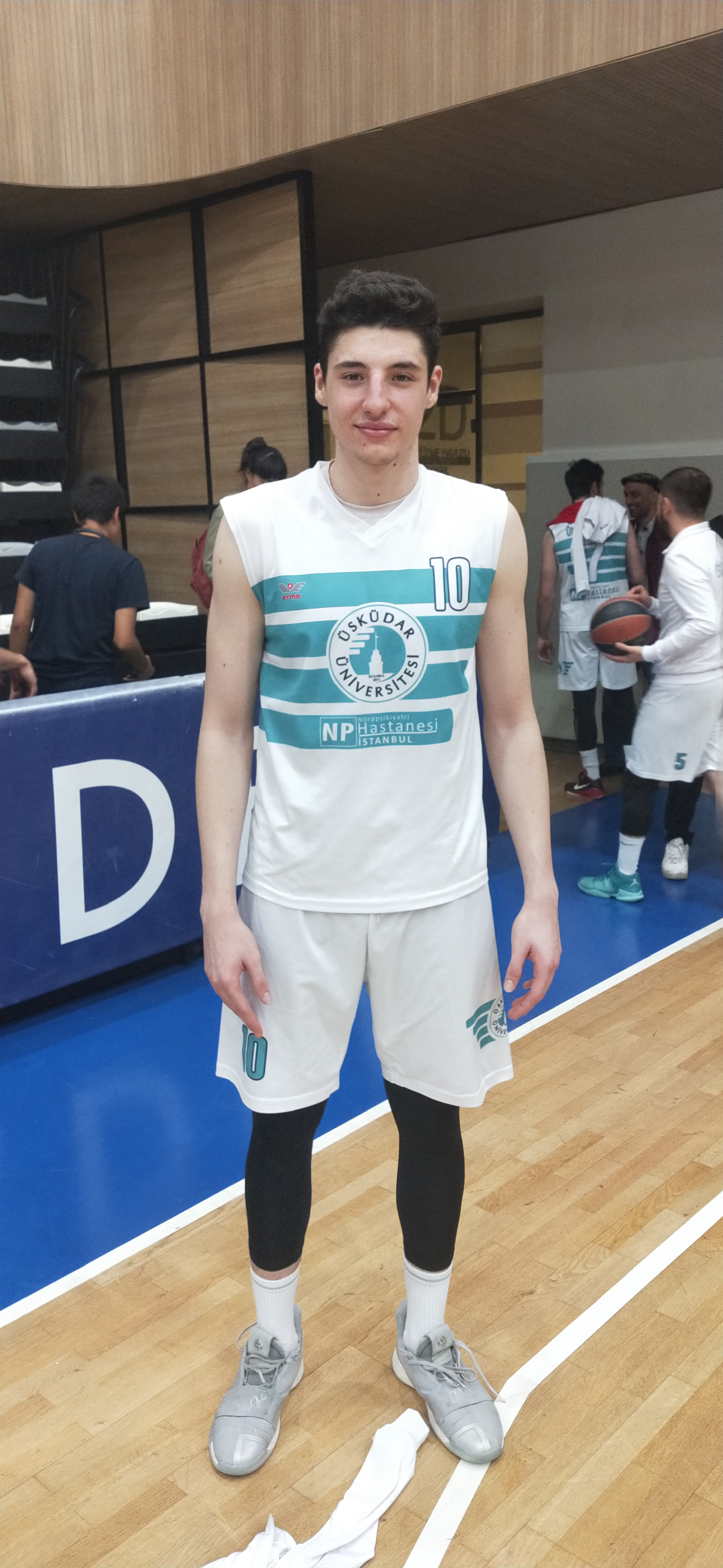 Ergi Tırpancı after Basketball game for Üsküdar University Basketball team.